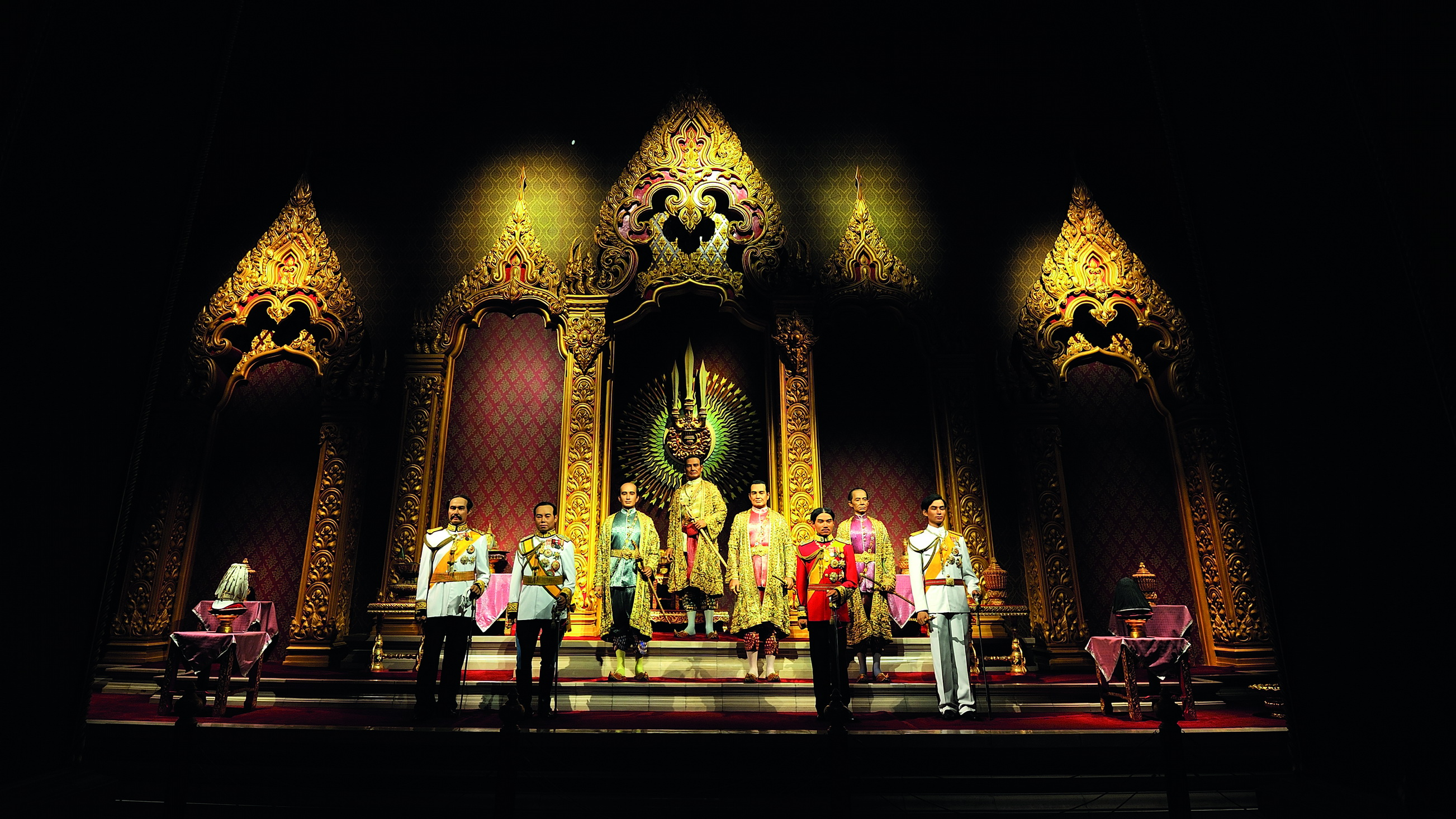 Located in Khun Kaew subdistrict, Nakhon Chai Si district, the museum is the country’s first exhibition hall of fiberglass figures. It was founded in 1982 by inspired Artist Duangkaew Phityakornsilp and his colleagues with an aim to promote and to preserve traditional Thai arts and culture. These artists spent over 10 years studying and experimenting on wax sculpture using fibre glass before succeeding in creating beautiful, exquisite, and durable ones. Today, the museum features 120 sculptures displayed in several collections for example the Chakri Dynasty, H.R.H. the Princess Mother ‘Somdet Phra Srinagarindra Boromarajajonani’, Enlightened Buddhist monks, world famous people, Thai traditional plays and the most famous collection is the Slavery in Thailand.